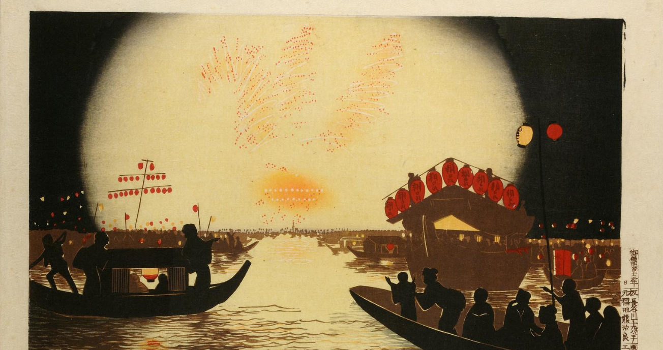 Fireworks at Sumida river,Tokyo.